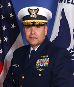 Rear Admiral Gary Blore, Program Executive Officer, Integrated Deepwater Systems Organization, U.S. Coast Guard